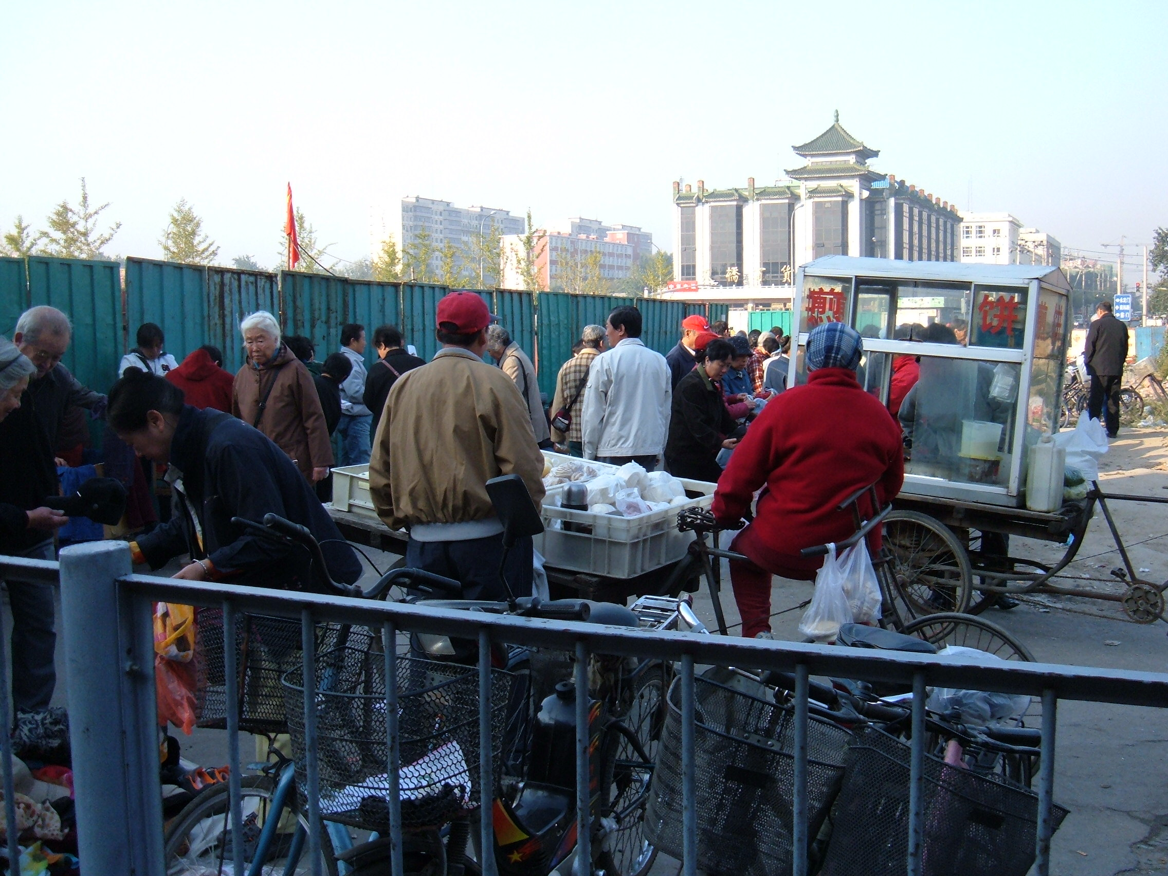 Vendors outside the West Gate of the Temple of Heaven Park in Beijing, China.